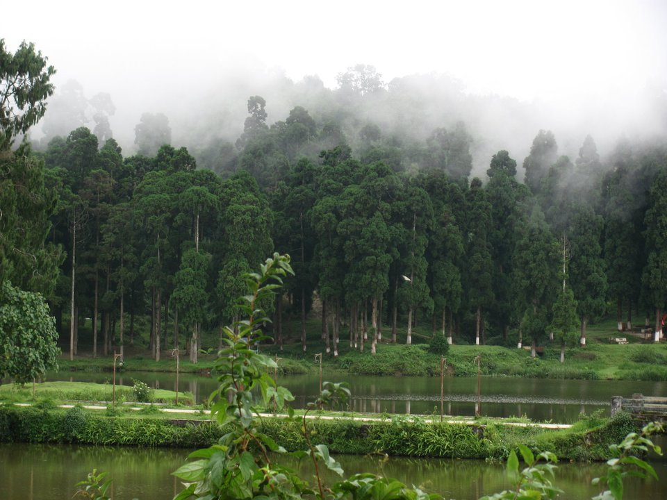 Mirik Lake